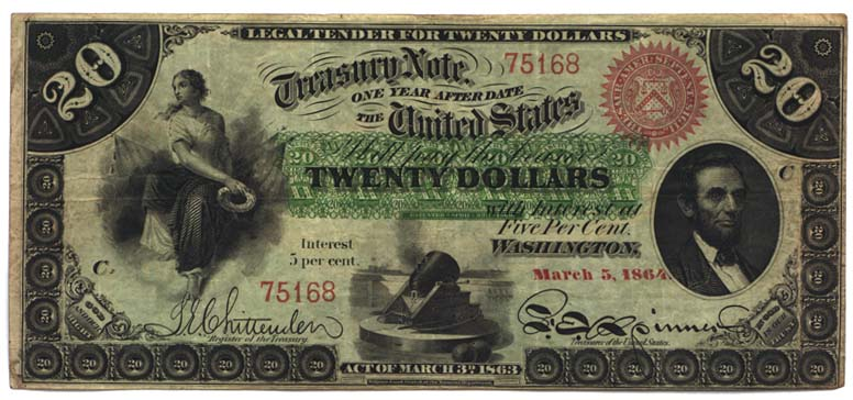 Twenty Dollar Interest Bearing Note